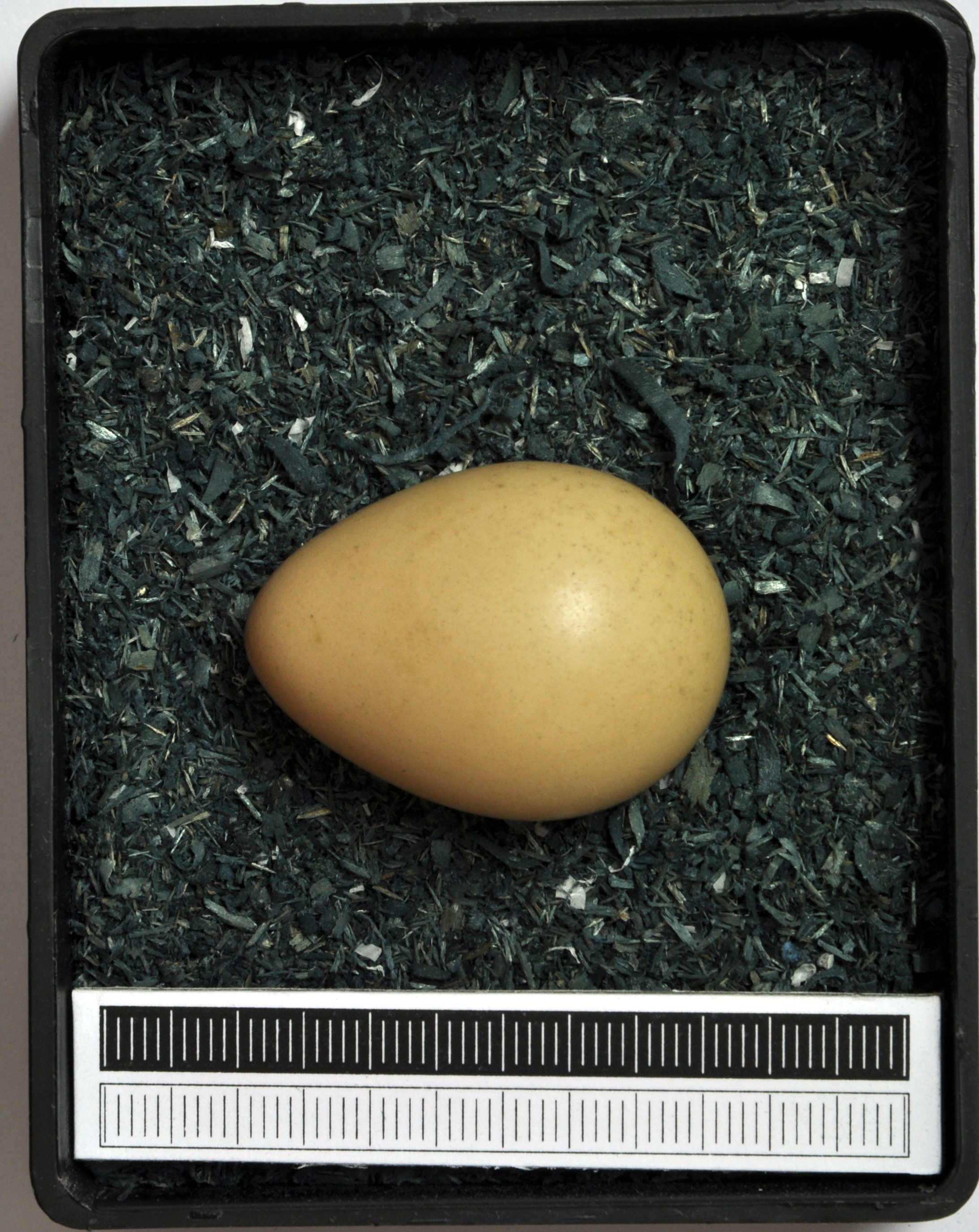 Grey partridge Perdix perdix, egg, Coll. Museum Wiesbaden, leg. W. Abelmann